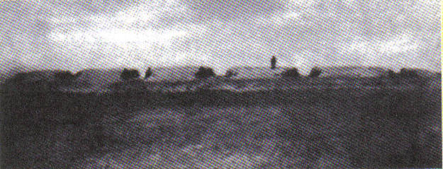 Defenses of Peru and Bolivia, for Battle of the Stop of the Alliance (Tacna Battle)